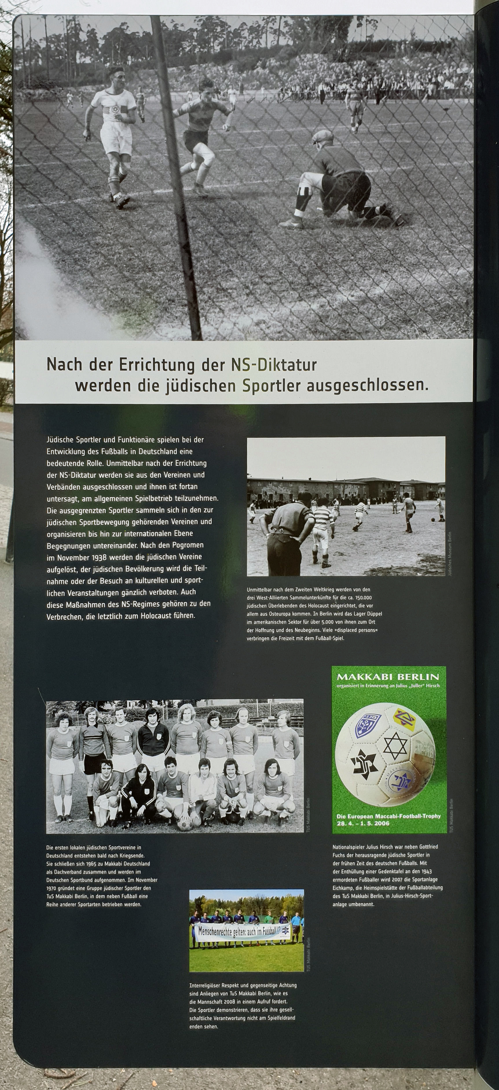 Memorial plaque, TuS Makkabi Berlin, Waldschulallee 34, Berlin-Westend, Deutschland